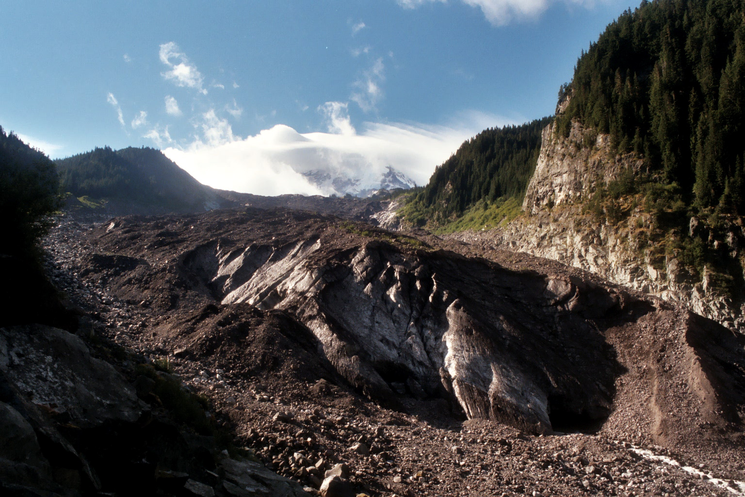 The end of the Carbon Glacier, Mount Rainier National Park, Washington, United States